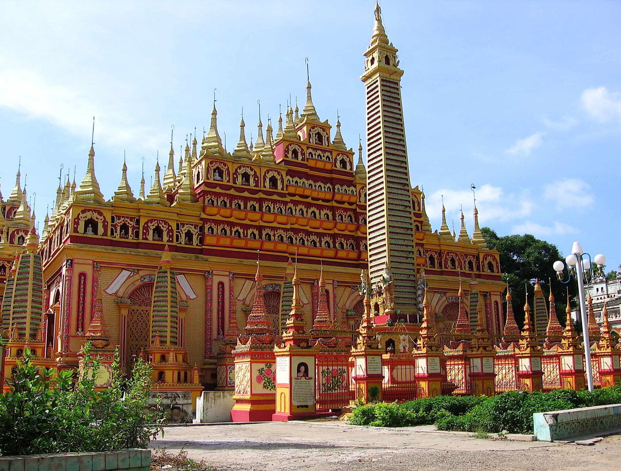 Thanboddhay paya, near Monywa, Myanmar.